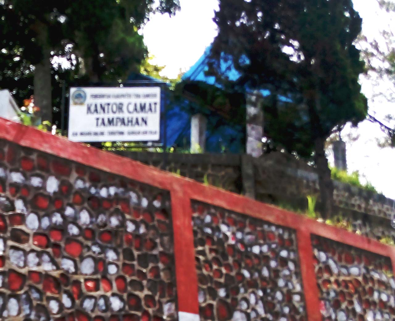 Office of Tampahan, Toba Samosir, Indonesia.